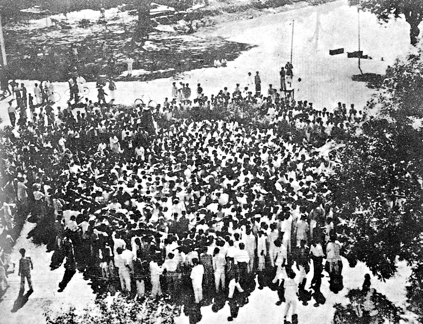 21st February 1952: The historic meeting at Amtola in front of old arts faculty building in question of breaking section 144.